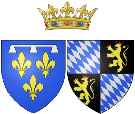 Arms of Élisabeth Charlotte of the Palatinate, Princess Palatine as Duchess of Orléans